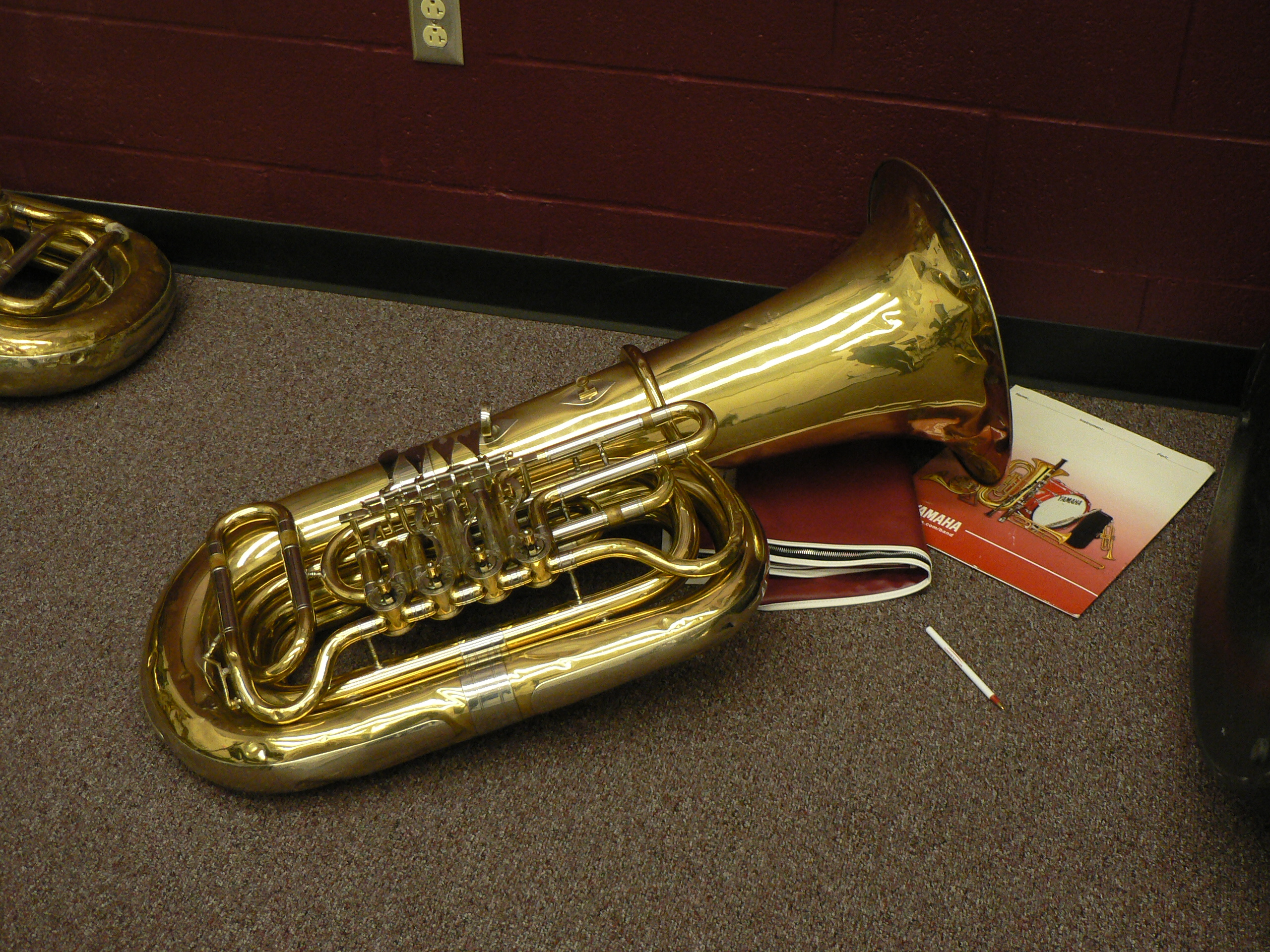 Picture taken by me. This tuba is not the type of tuba that is used in a traditional brass band.